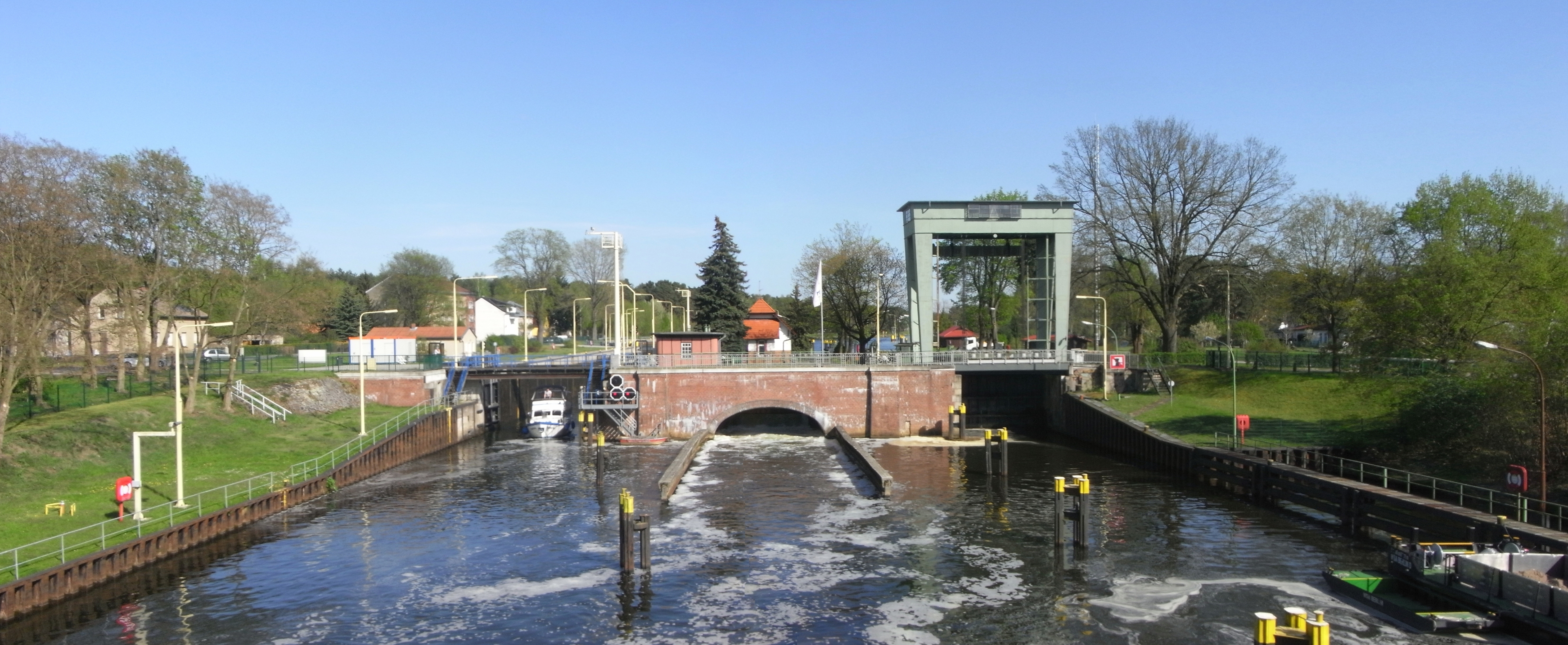 Wernsdorf Lock of Oder-Spree Canal